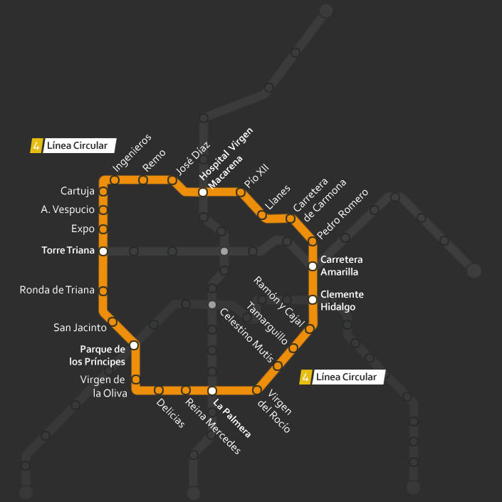 Map L4